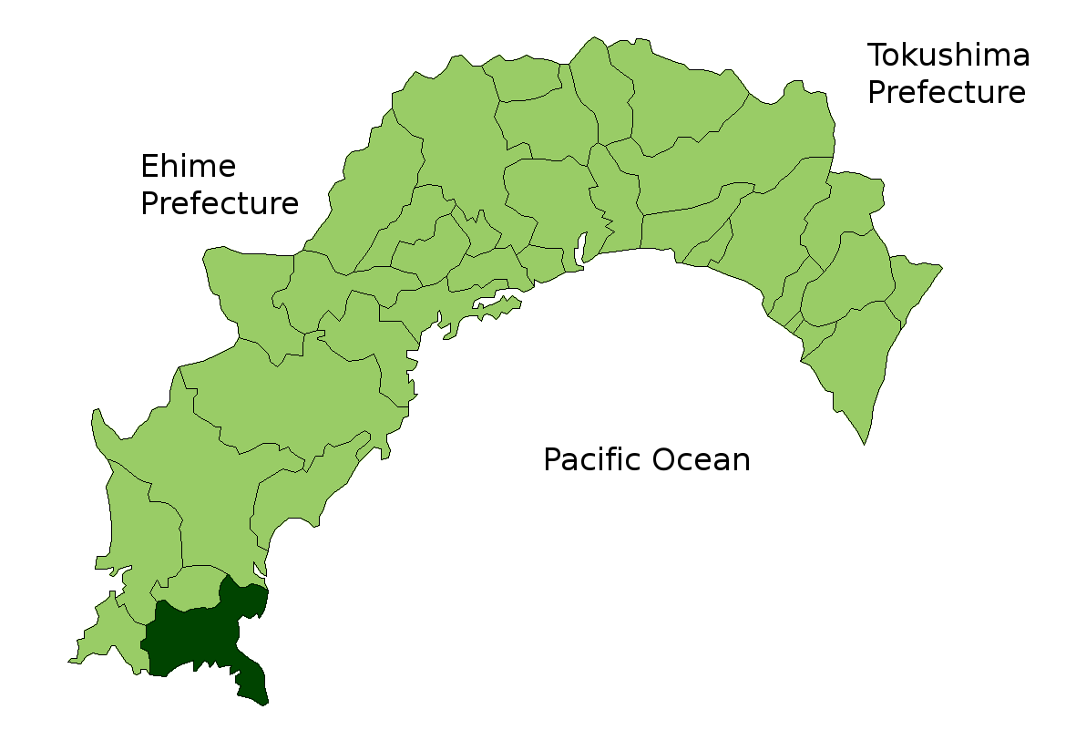 Map of Kochi Prefecture highlighting Tosashimizu city. Borders of map as of October, 2006. (blank map used from [1]) See also Image:KochiMapCurrent.png